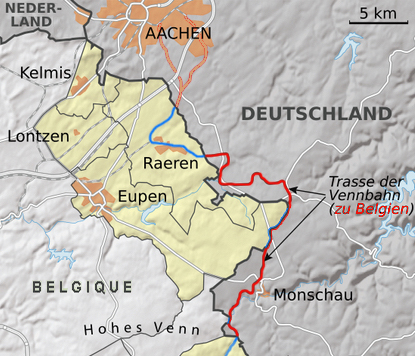 Vennbahn (Ligne des Fagnes) : in red, the belgian section of this railroad in Germany (yellow : german-speaking communes in Belgium). Derivative map from File:Karte Deutschsprachige Gemeinschaft.svg